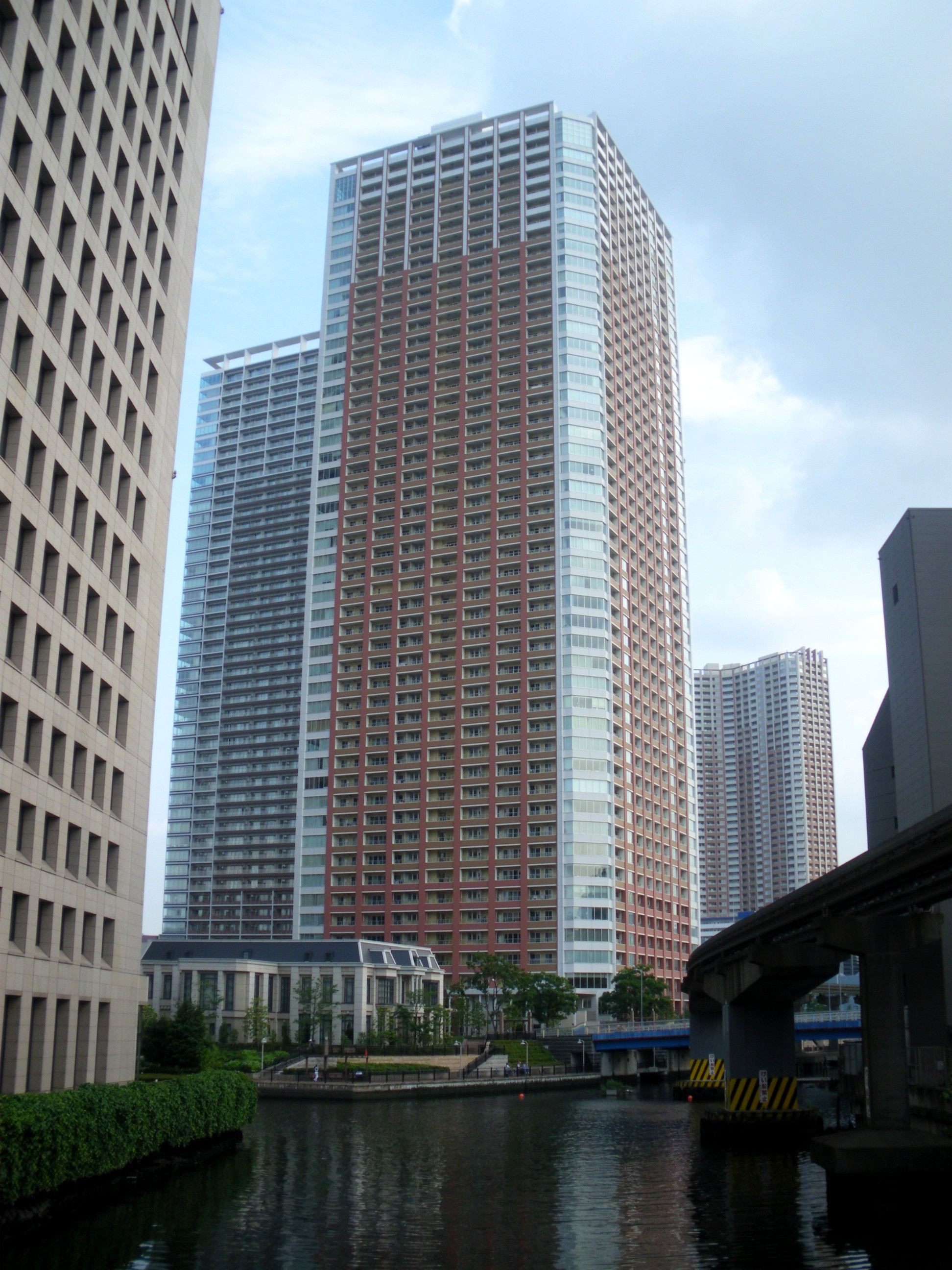 A photo of an overview Shibaura Island(high-rise apartments in Tokyo.),Shibaura,Minato-ku,Tokyo,Japan.